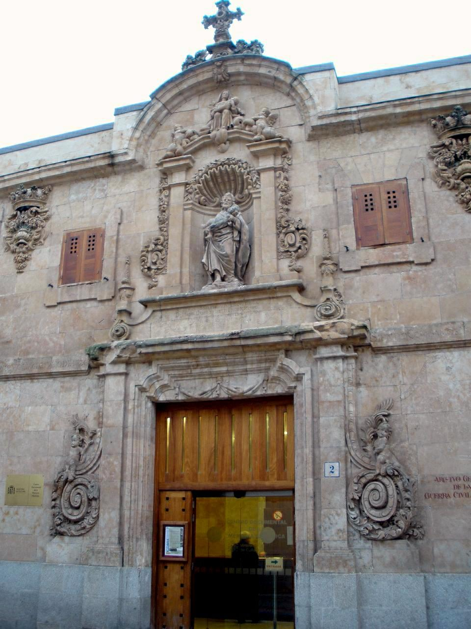 Archivo General de la Guerra Civil Española, en Salamanca (España)